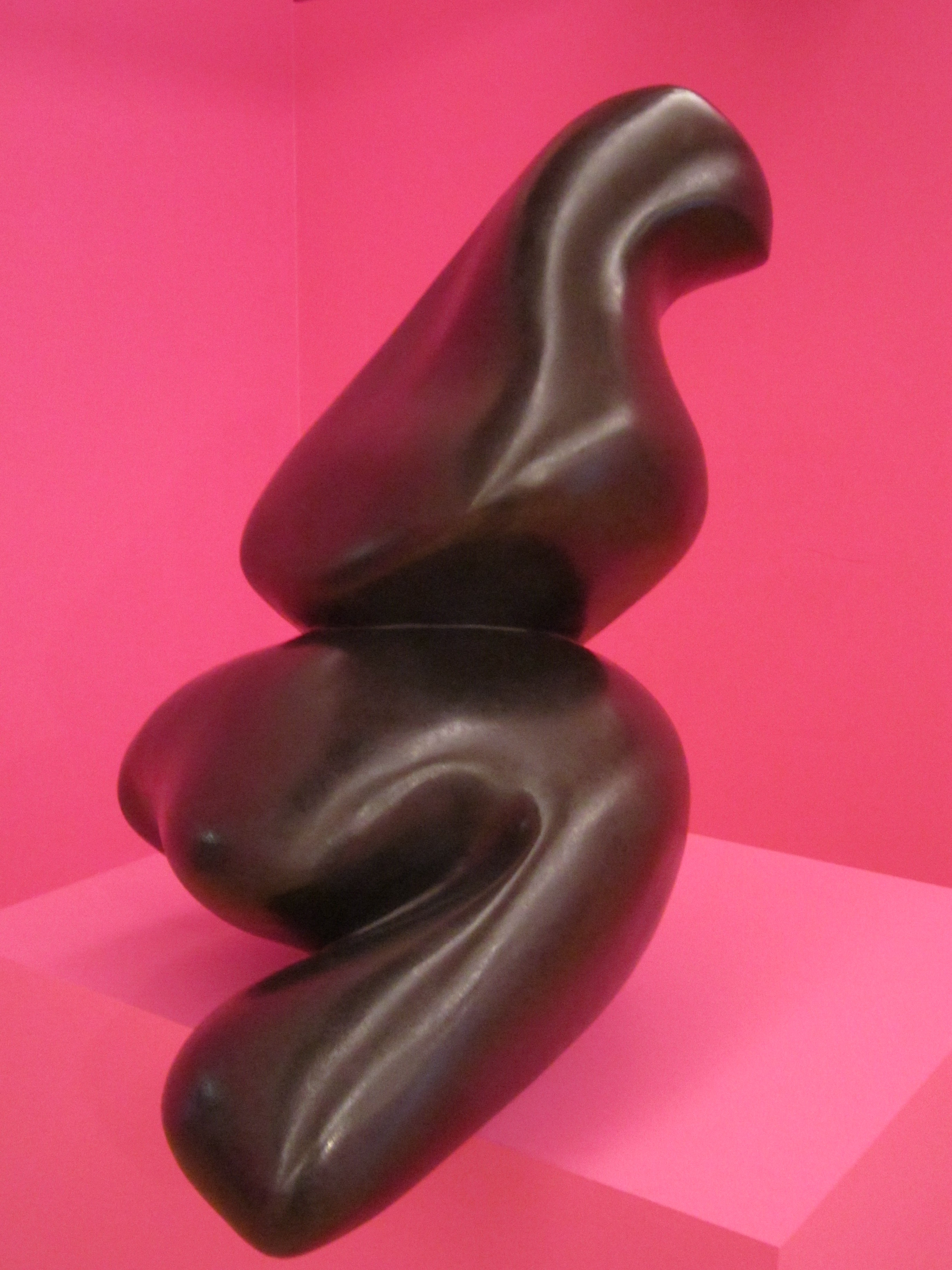 Pagoda Fruit by Jean Arp, Tate Liverpool, England.